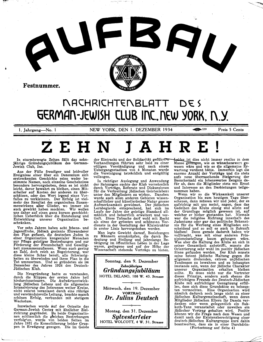 "Aufbau" German-Jewish newspaper, published in German, originally in the U.S.